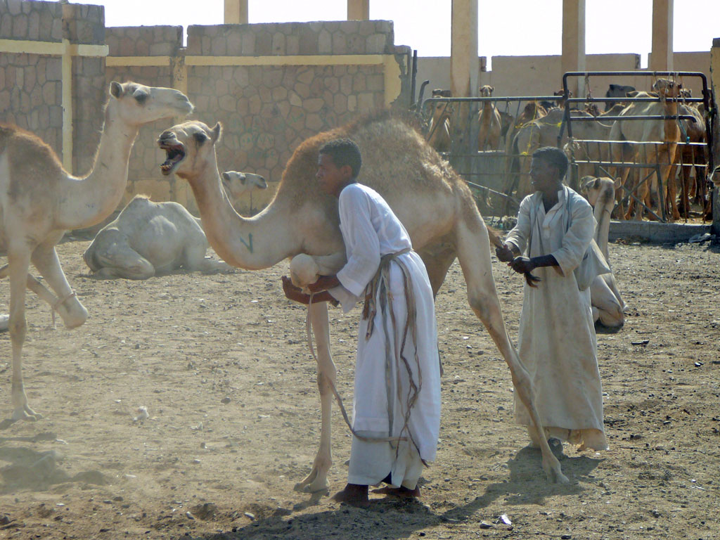 Camel market Asch-Schaltin / Southeast-Egypt (Serie 9/10)